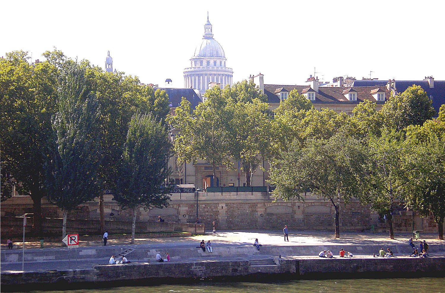 Quai de la Tournelle - Paris